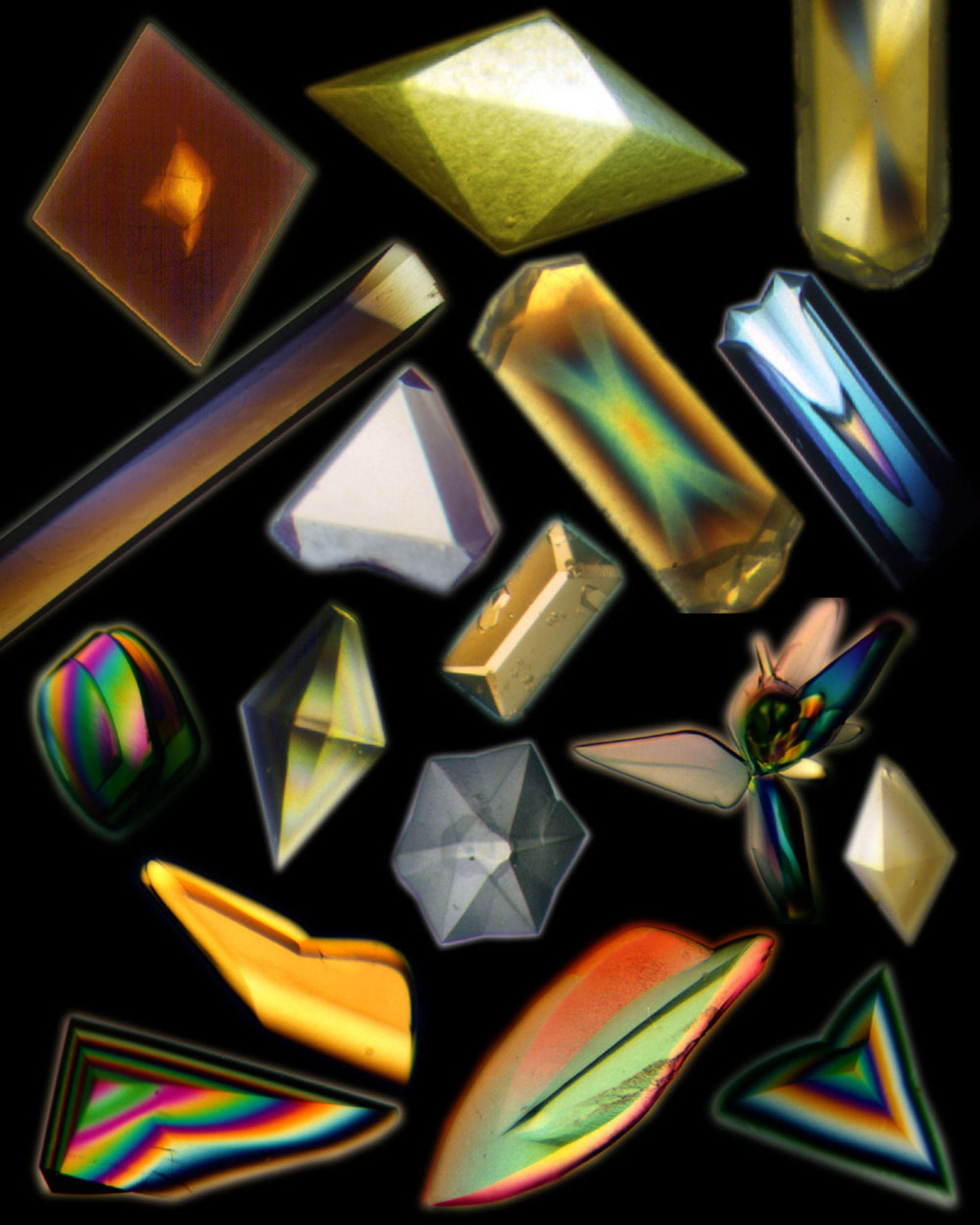 Protein crystals grown in space A collage of protein and virus crystals, many of which were grown on the U.S. Space Shuttle or Russian Space Station, Mir. The crystals include the proteins canavalin; mouse monoclonal antibody; a sweet protein, thaumatin; and a fungal protease. Viruses are represented here by crystals of turnip yellow mosaic virus and satellite tobacco mosaic virus. The crystals are photographed under polarized light (thus causing the colors) and range in size from a few hundred microns in edge length up to more than a millimeter. All the crystals are grown from aqueous solutions and are useful for X-ray diffraction analysis. Credit: Dr. Alex McPherson, University of California, Irvine.